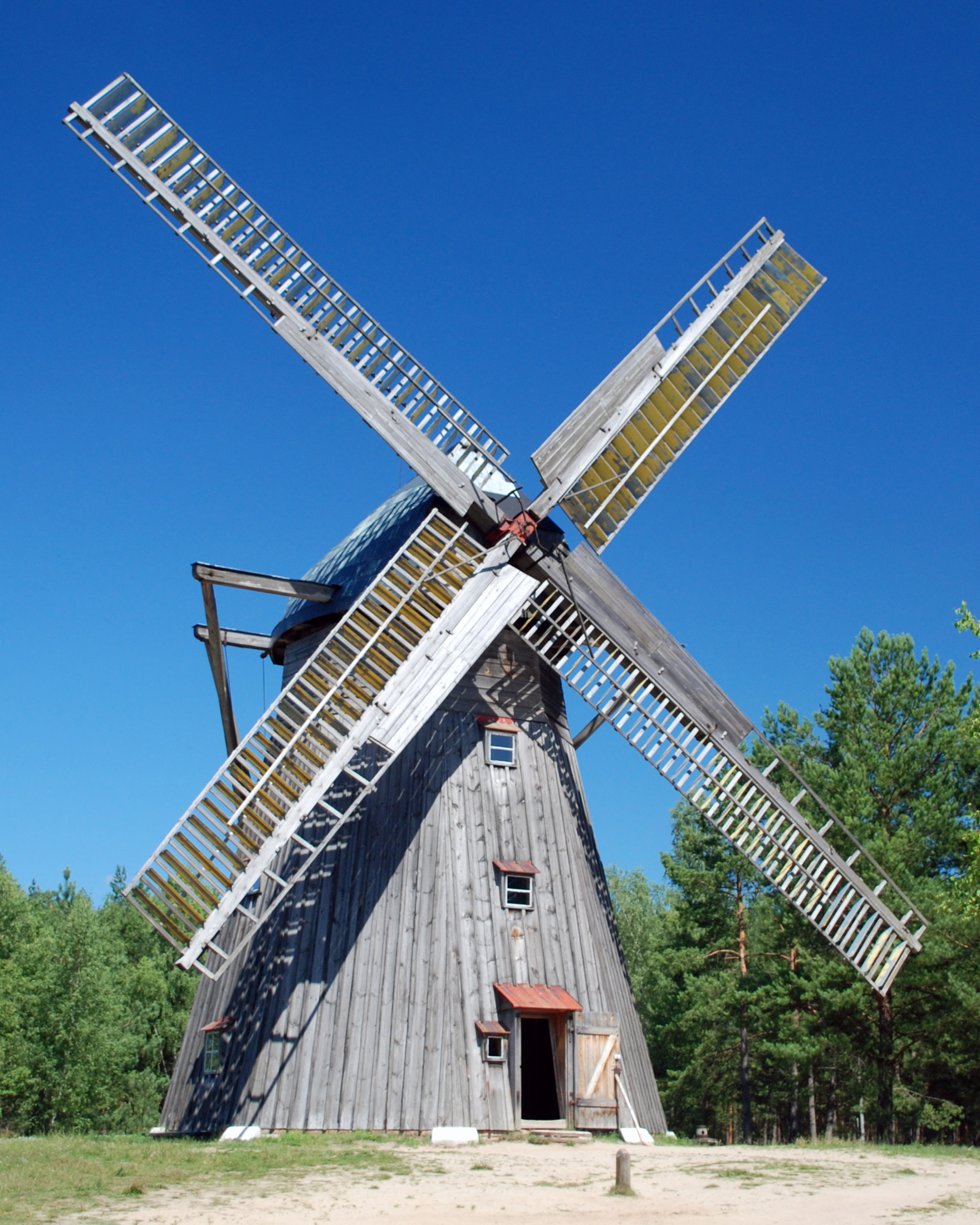 Windmill in Wdzydze Kiszewskie (Poland)